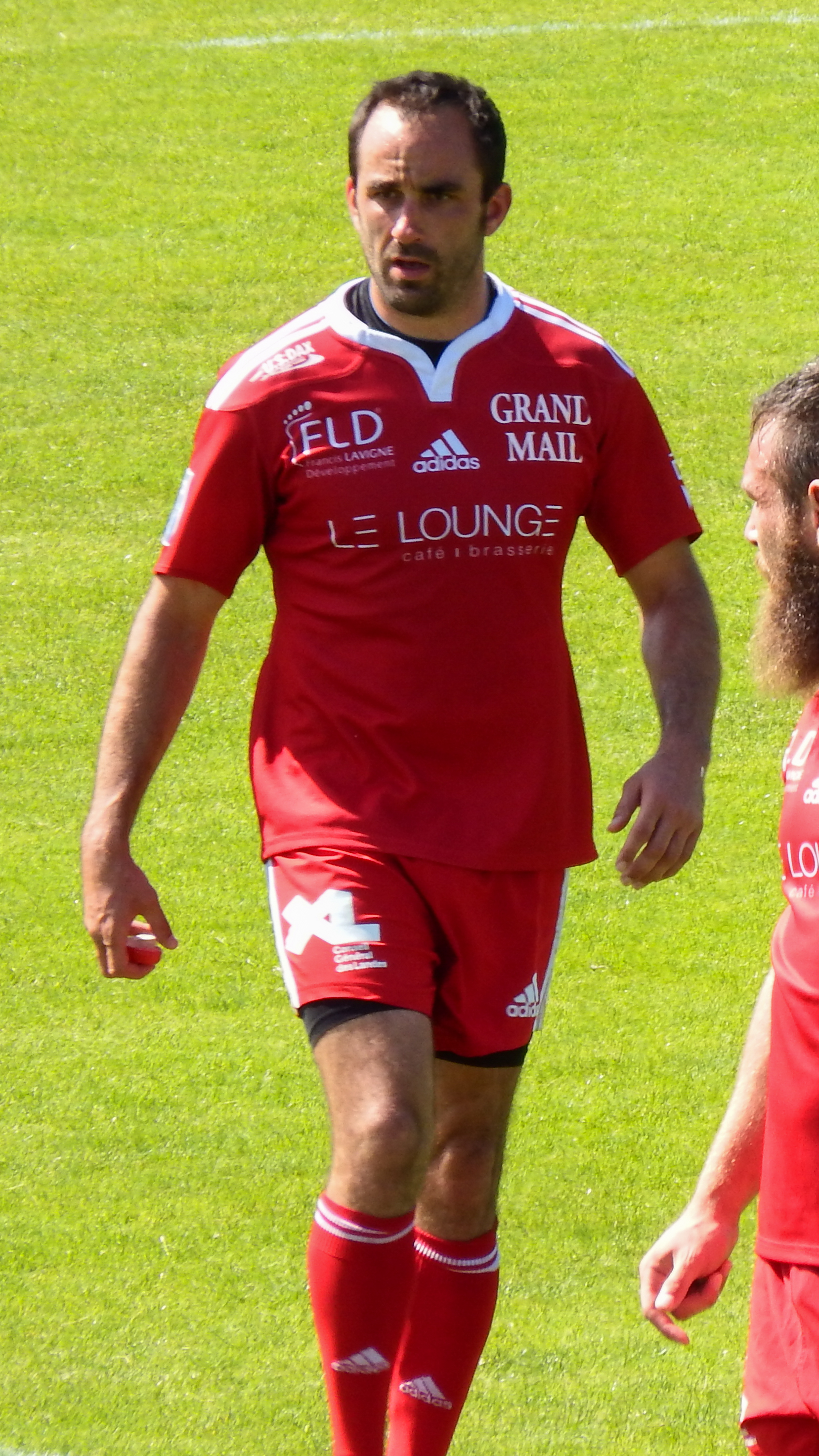 Pro D2 2014-2015 — 10 May 2015, Stade Maurice-Boyau. Match between: US Dax — Biarritz Olympique